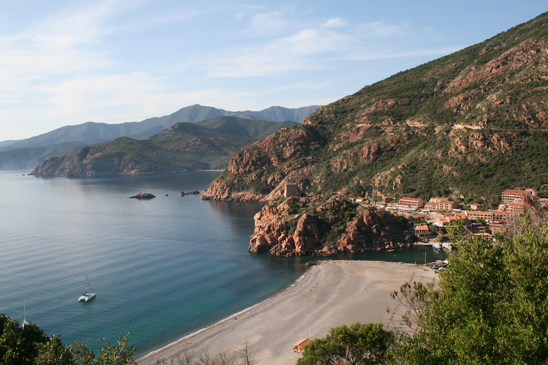 Ota France, the Golf of Porto (Corse-du-Sud) and the beach of the Porto hamlet. Walon: Ota France, li Golfe di Porto (Corse-do-Sud) èt l'plâje do amau di Porto.